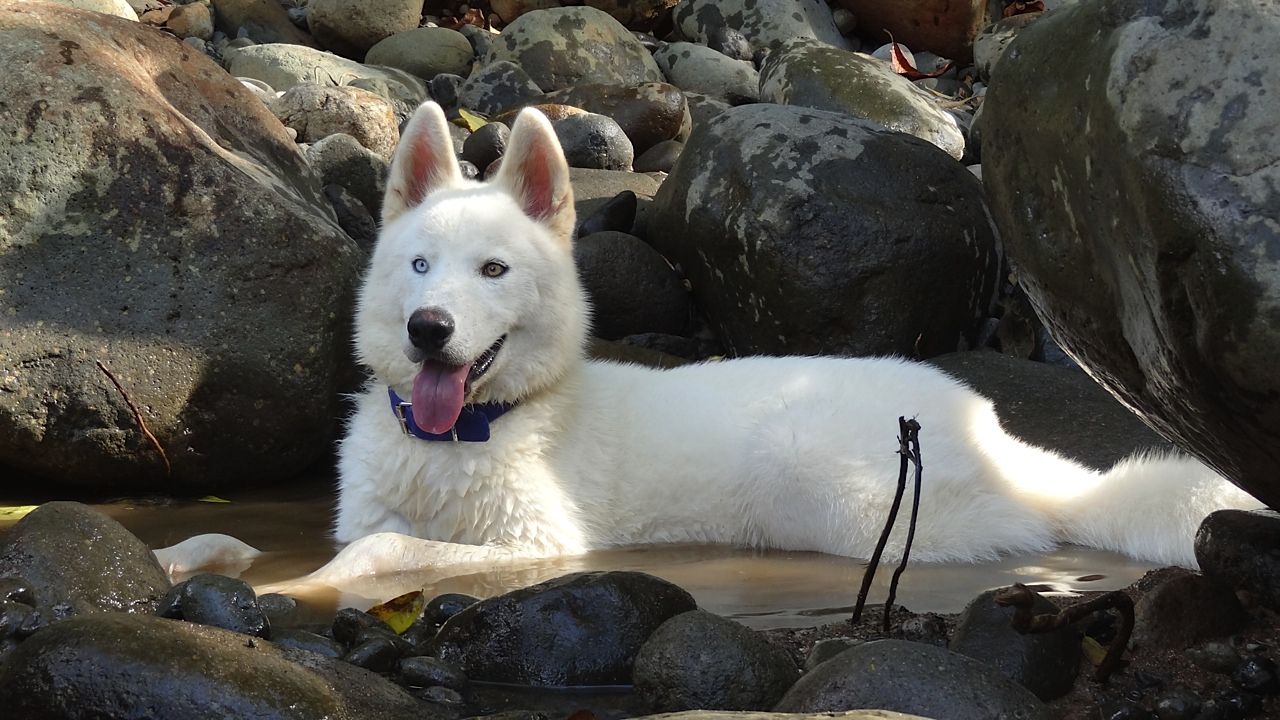 Pure white Siberian Husky in the river